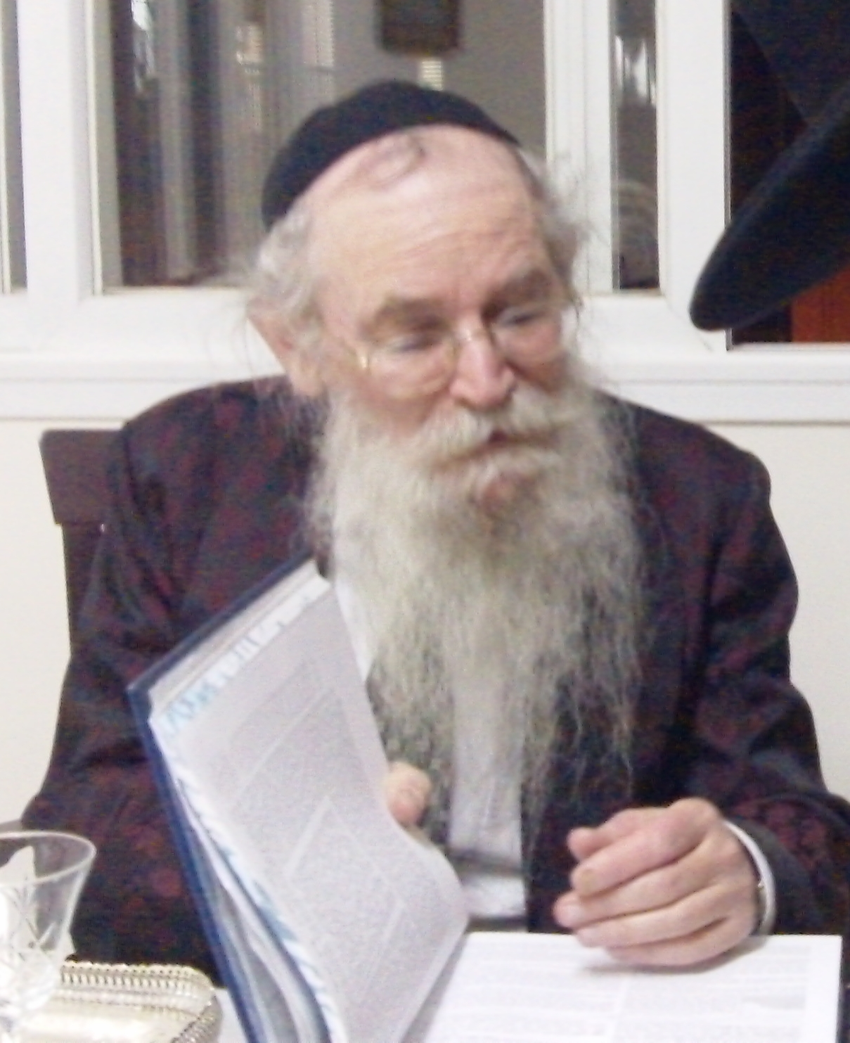 Rabbi Uri Weissblum, 2011.